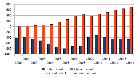 USA deficit, China surplus, 2000-2014, World Economic Outlook, IMF